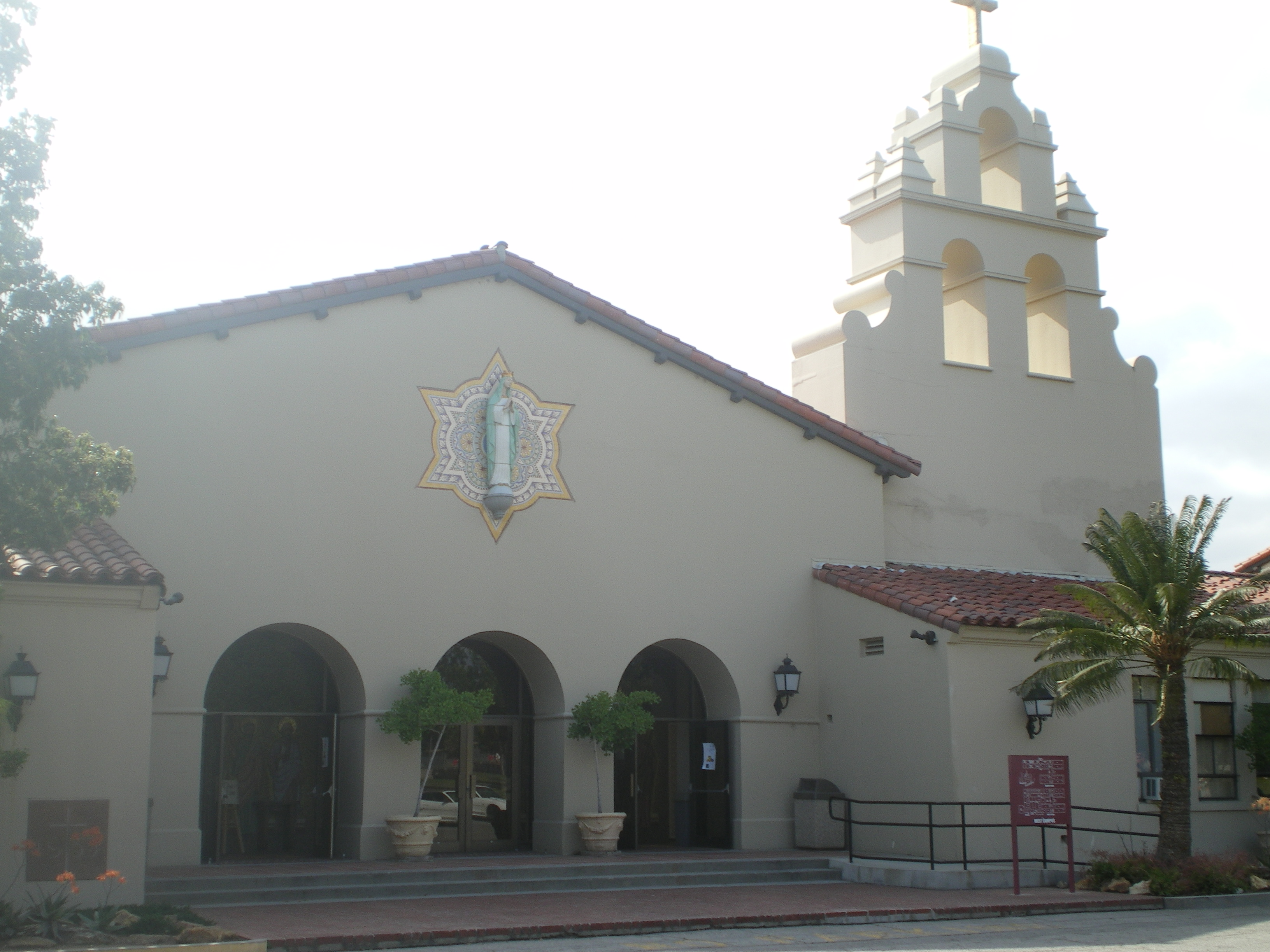 Bishop Alemany High School — in the city of San Fernando, eastern San Fernando Valley, Los Angeles, California.